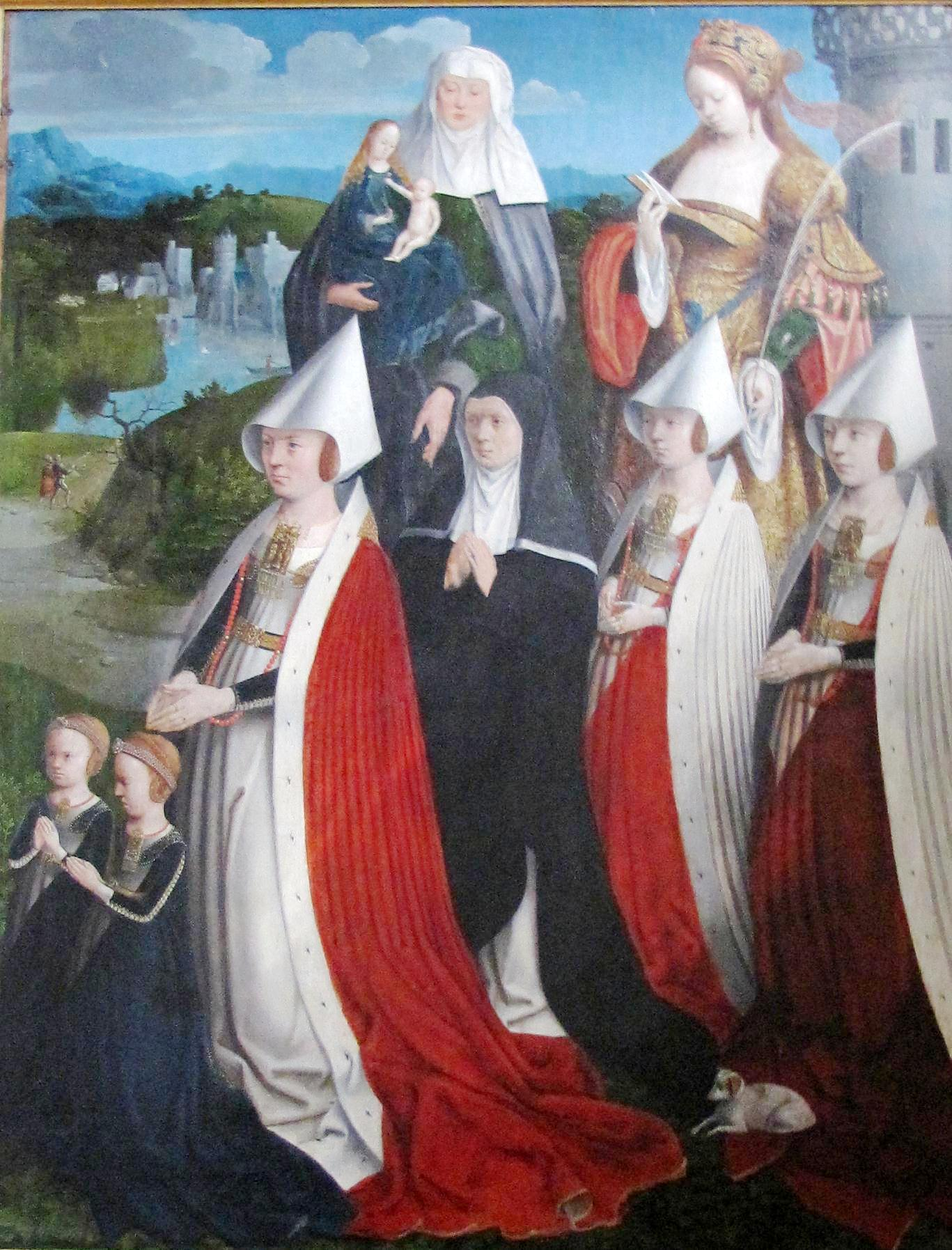 Right wing of the Brömbsenaltar in St. Jakobi, Lübeck, showing Elisabeth Brömse, wife of Heinrich Brömse and her daughters